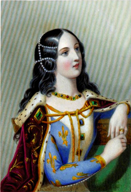 Isabelle de Valois